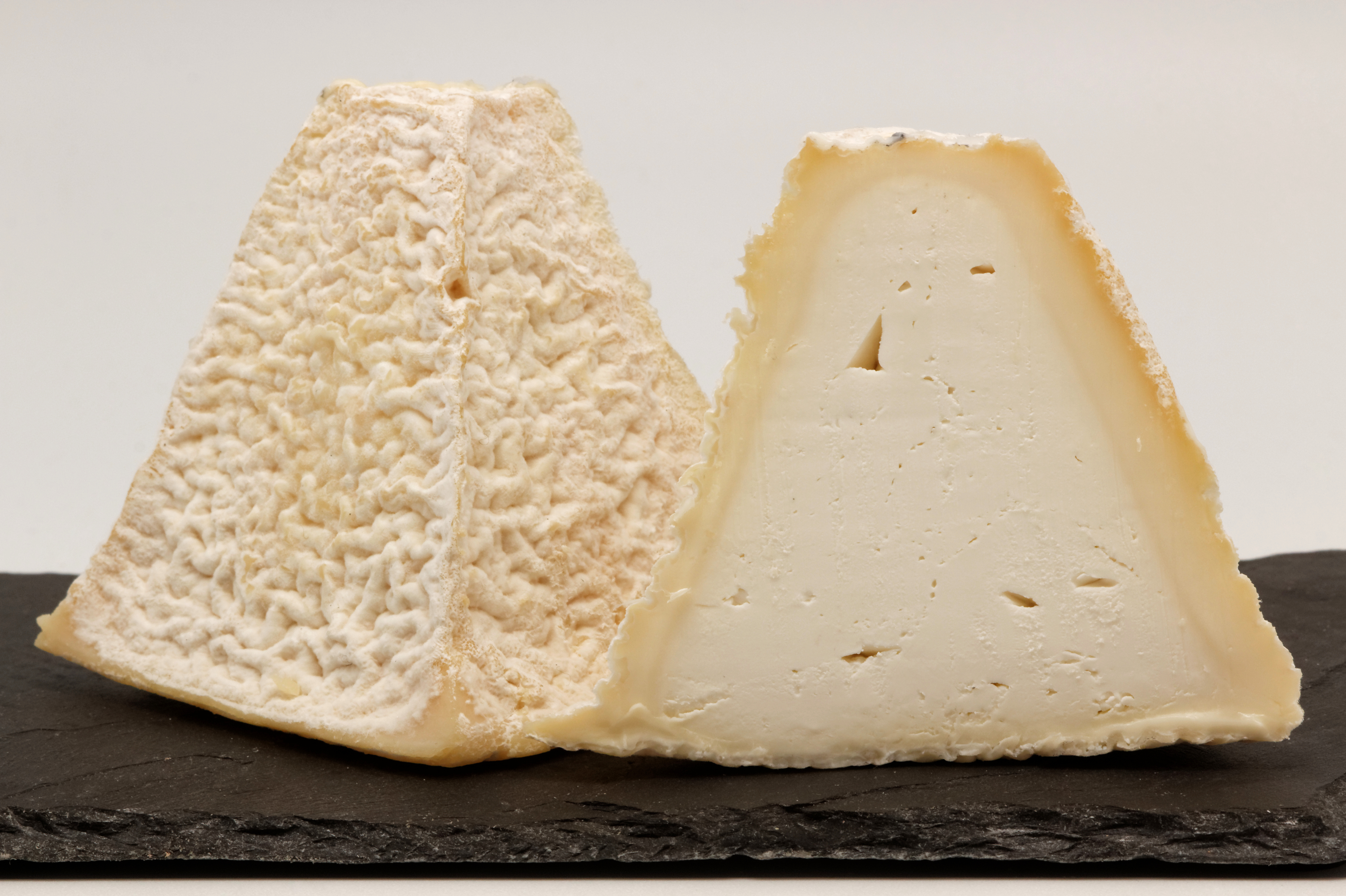 Pouligny-saint-pierre (goats'-milk cheese)